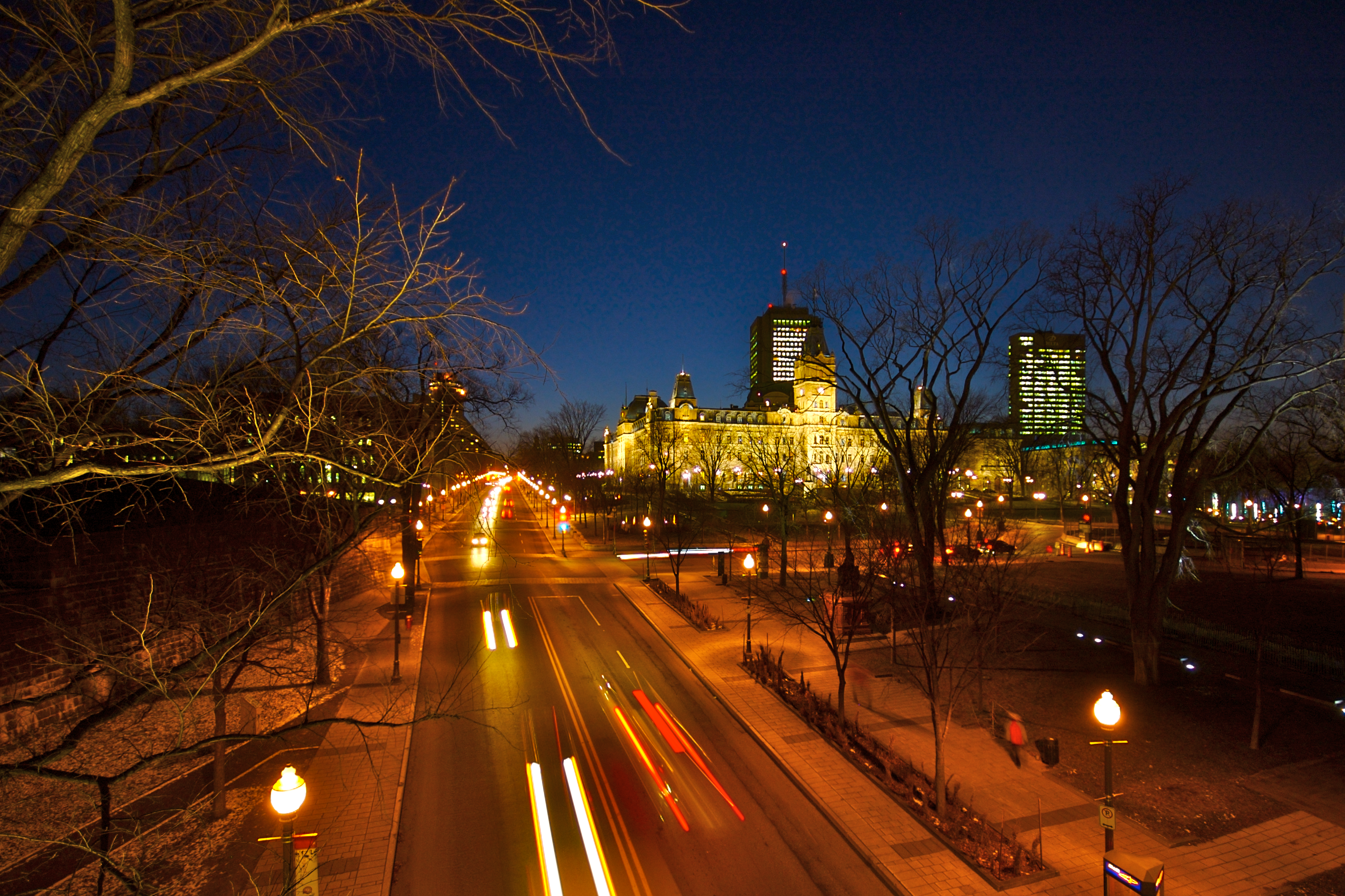 Grande Allée, Quebec City, Quebec at night.